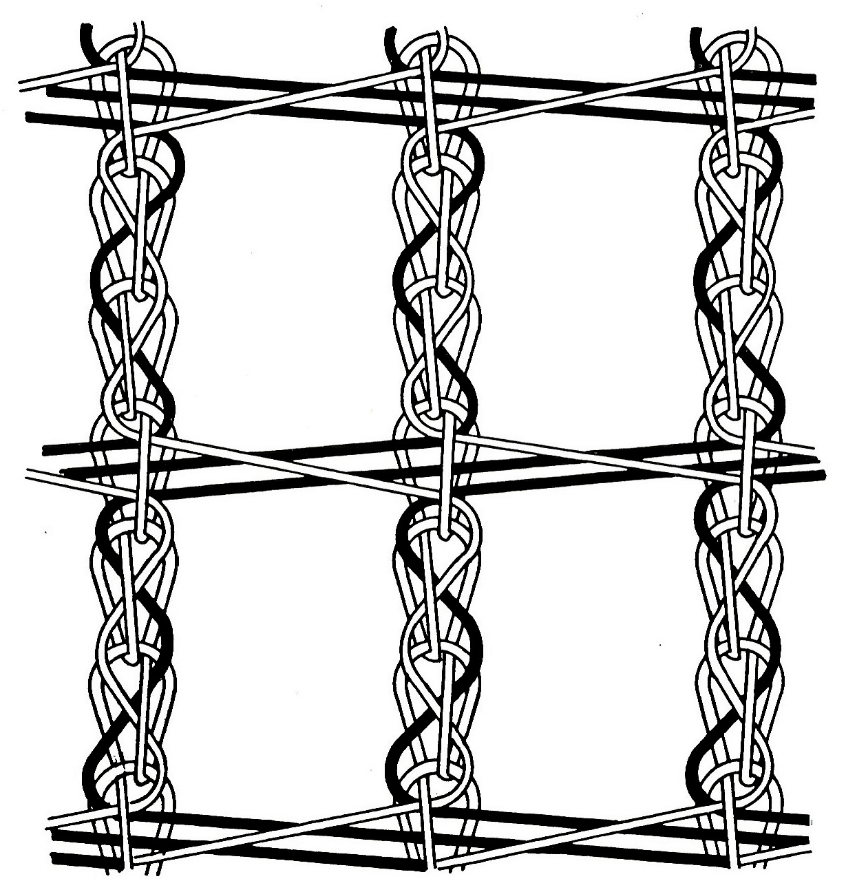 Marquisette lace ground made on Raschel machine